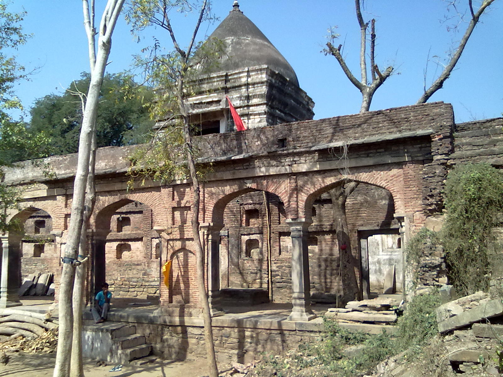 350 yrs old radhe-krishna temple in holy place Tilothu